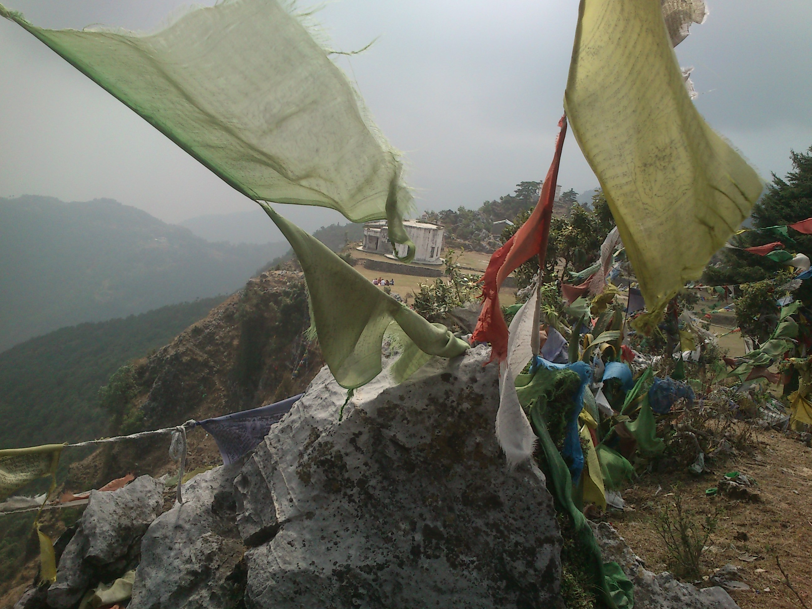 view of Sir George Everest's house in Mussorie, Dehradun , India